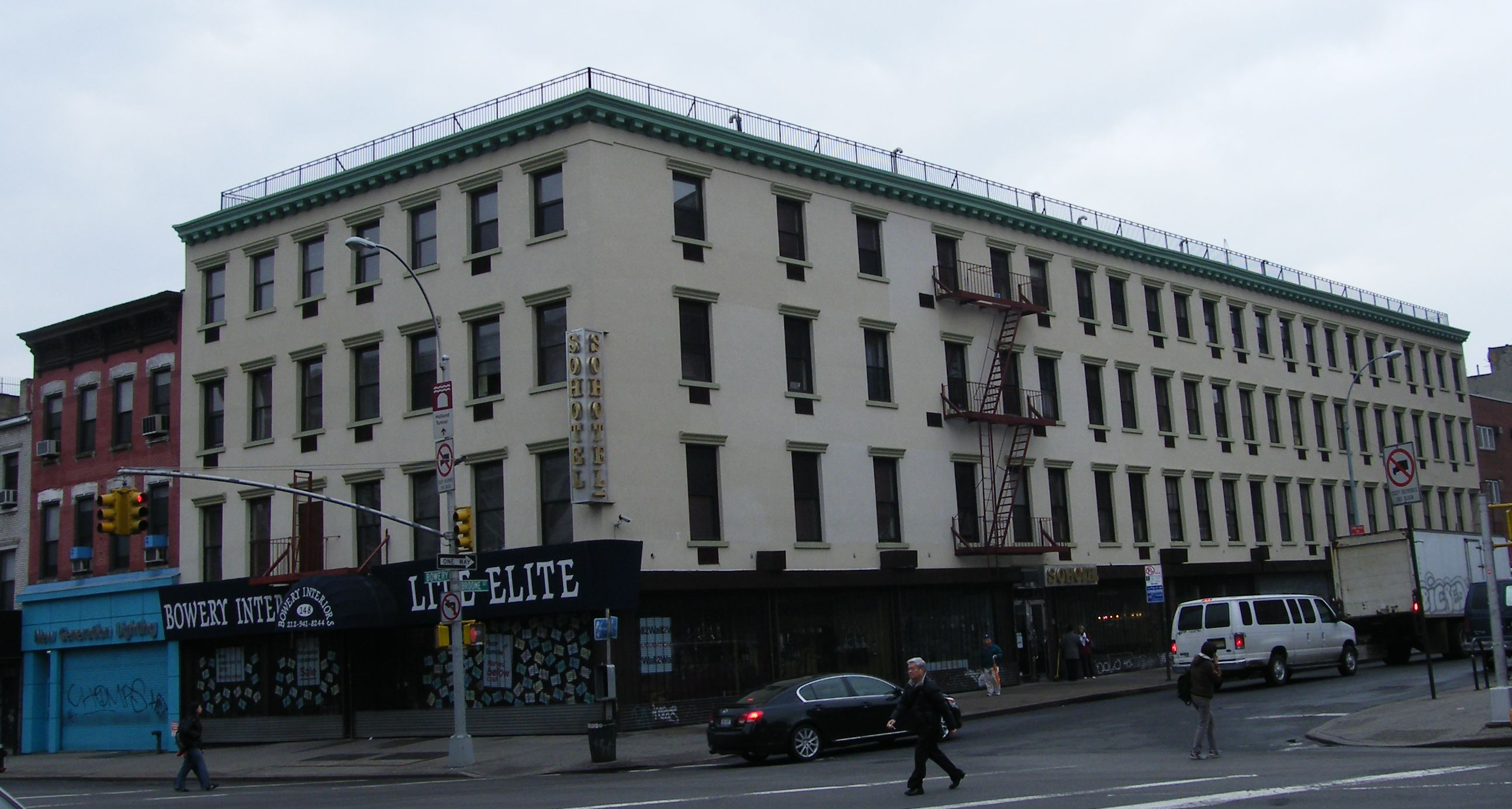 Westchester House on National Register of Historic Places in New york city